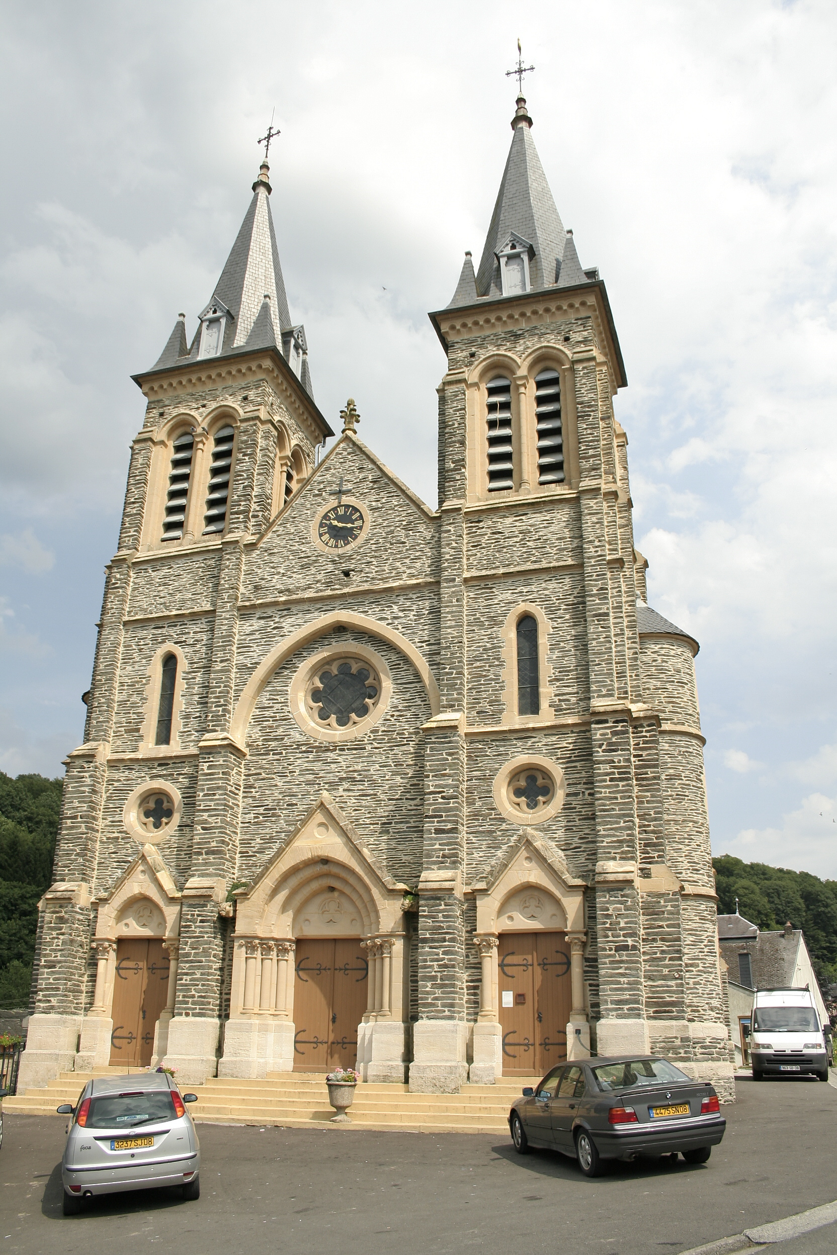 Pussemange (Belgium), the St. Hilary’s church (1872-1874). Walon: Pûsmadje (Bèljike), l’églîje Sint-Ilaîre (1872-1874).